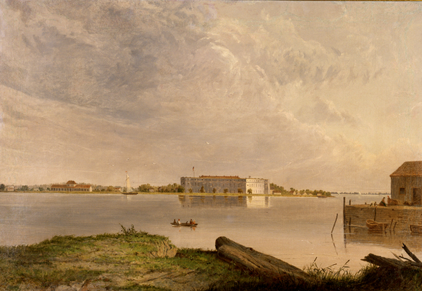 Fort Delaware, Delaware by Seth Eastman (1808 - 1875) Oil on canvas, 1870-1875 Sight measurement Height: 24.38 inches (61.9 cm) Width: 35.38 inches (89.9 cm) Signature (lower left): S. E. Cat. no. 33.00012.000 Retrieved from US Government website